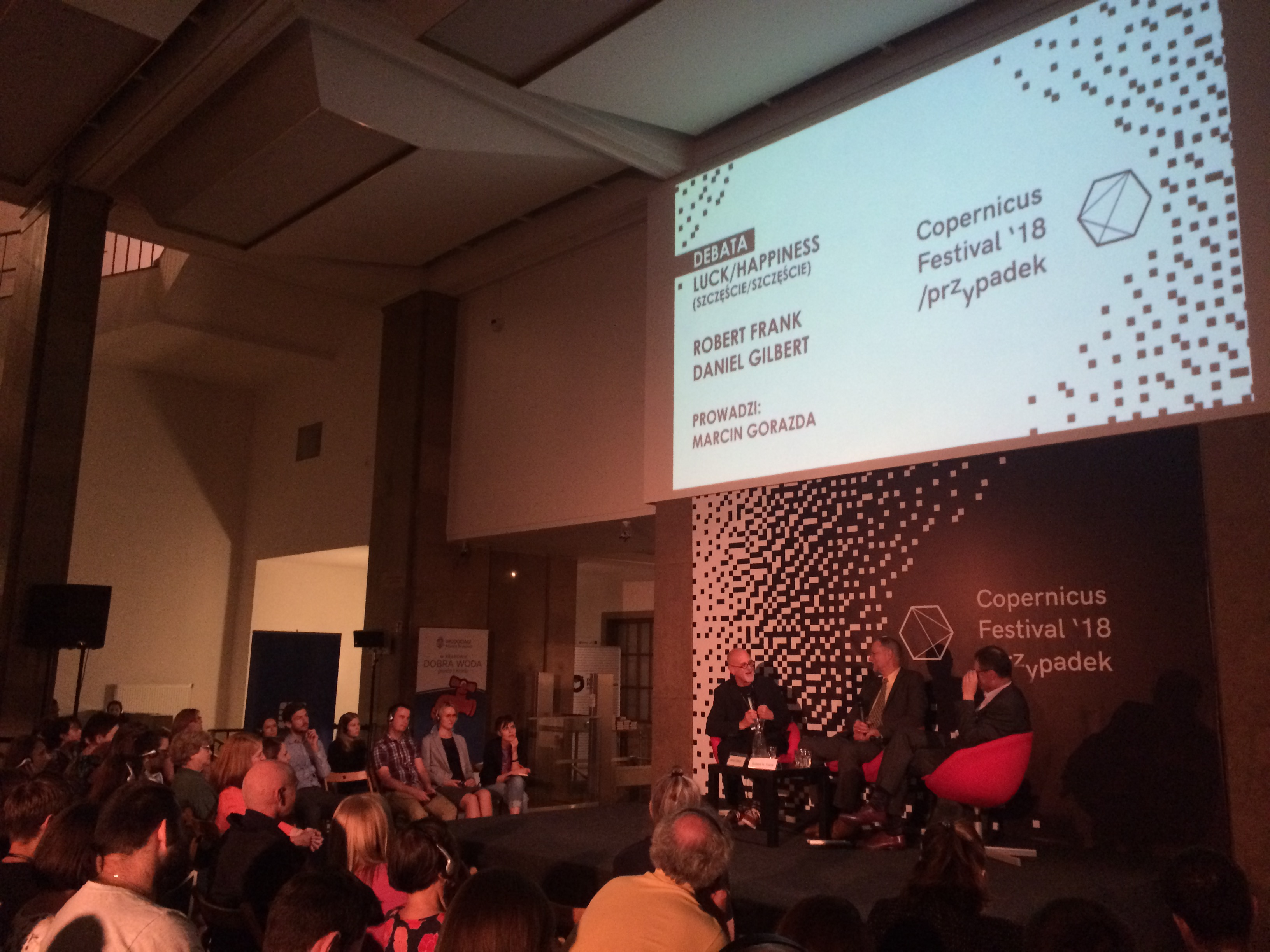 Psychologist Daniel Gilbert and economist Robert H. Frank during a panel discussion at Copernicus Festival in Kraków, Poland.